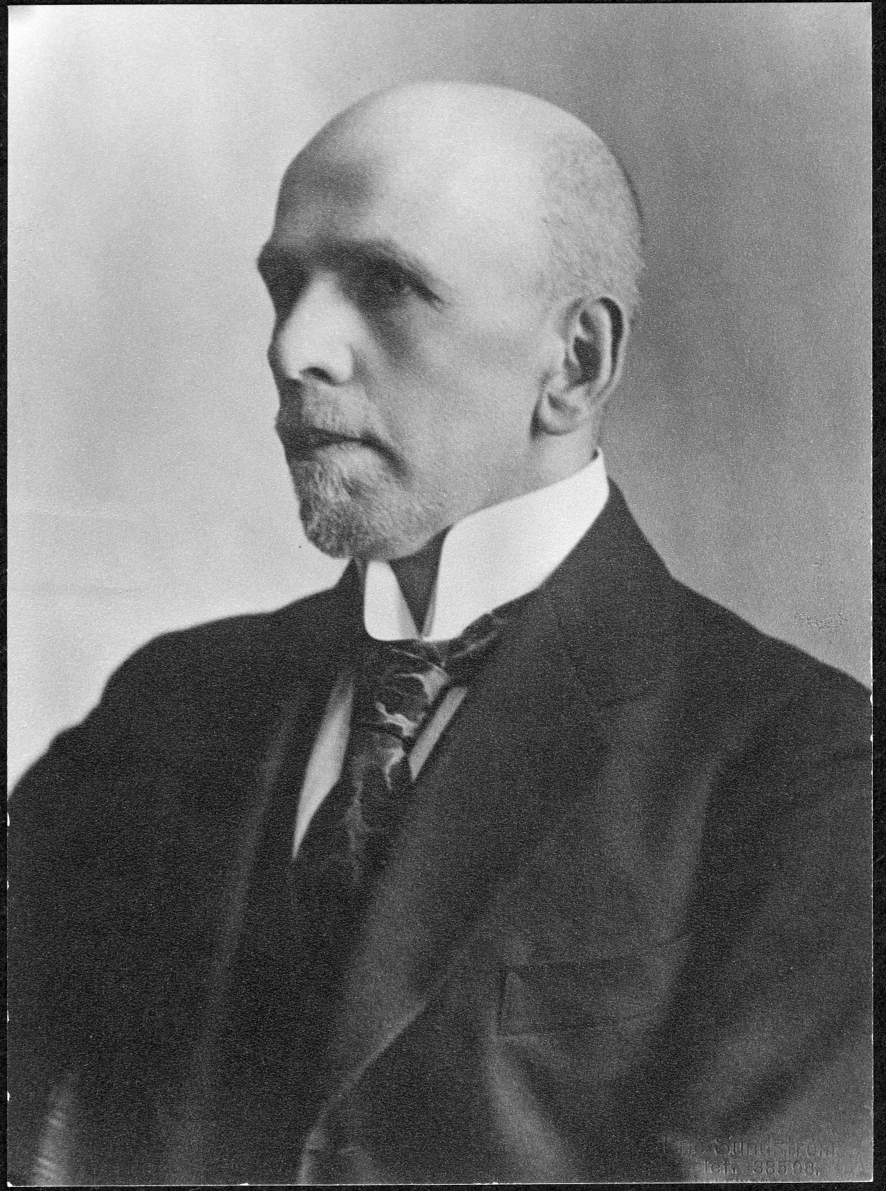 Photograph of the Finnish librarian, writer and literary historian Emil Hasselblatt (1874–1954).